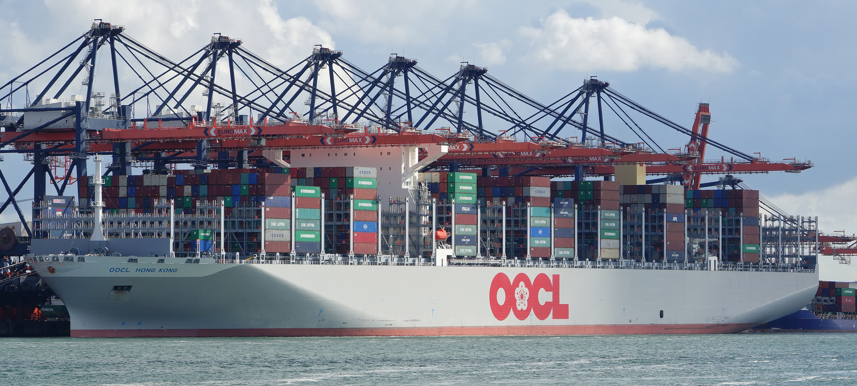 Euromax terminal yangtzehaven 15-9-2017